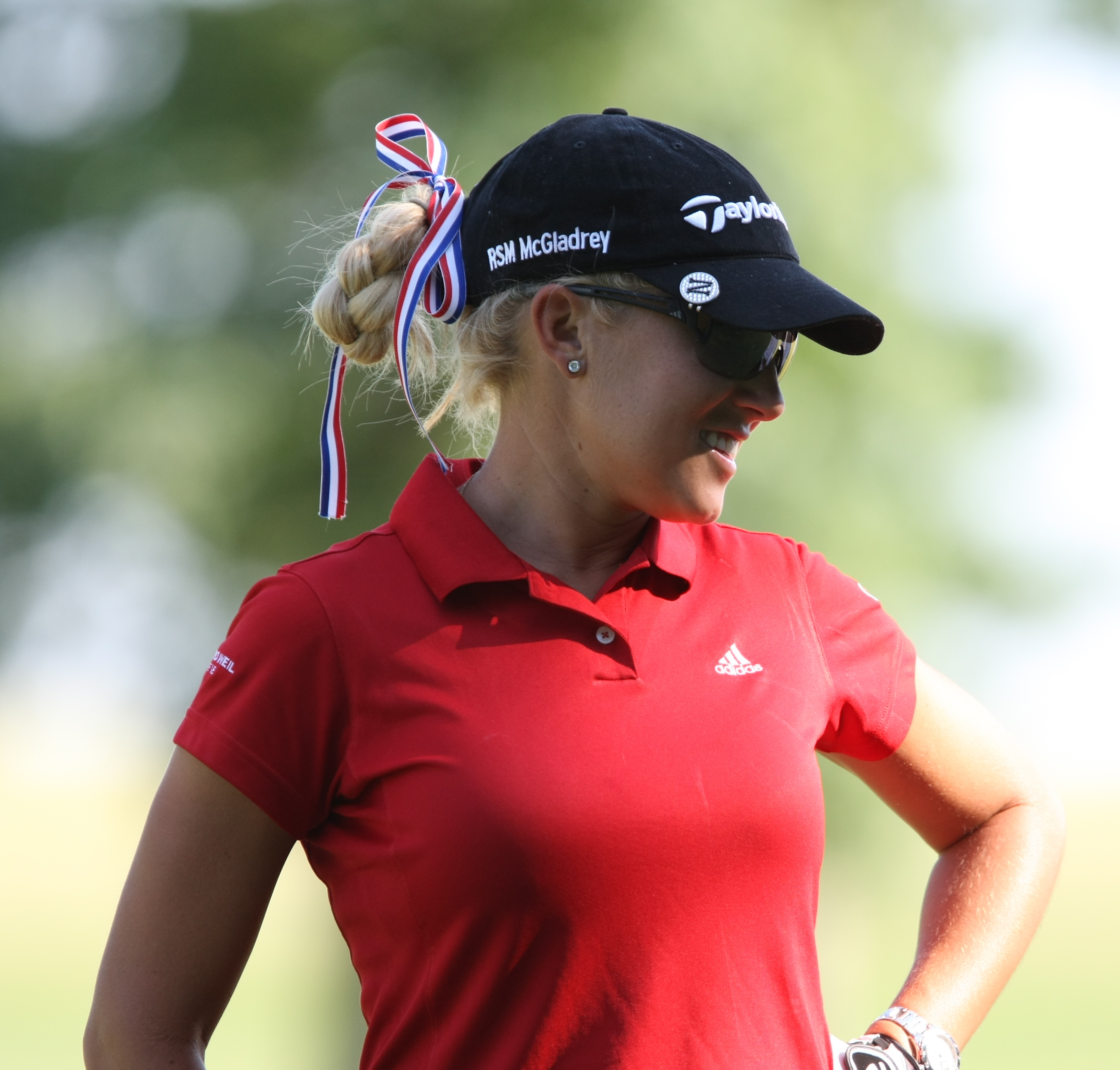 HAVRE DE GRACE, MD - JUNE 02: Natalie Gulbis (USA) during pro-am before 2008 LPGA Championship held at Bulle Rock Golf Course, on June 2, 2008 in Havre de Grace, Maryland. (Photo by Keith Allison)